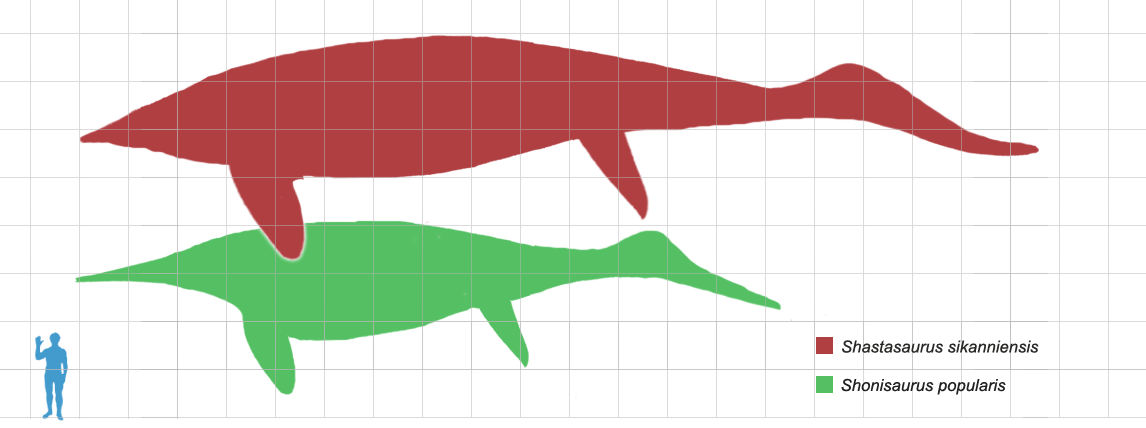 Size of the ichthyosaurs Shonisaurus popularis (green) and Shastasaurus sikanniensis (red) compared with a human. Grid segment = 1m.